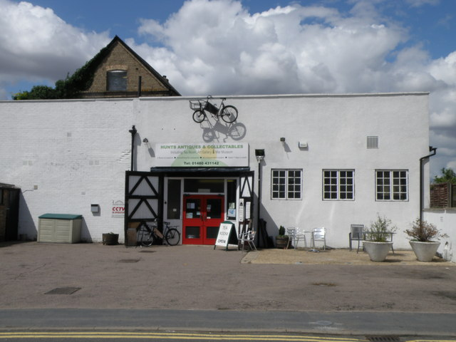 St Mary's street antique and collectables emporium, Huntingdon If ET is looking for his bike, its here.